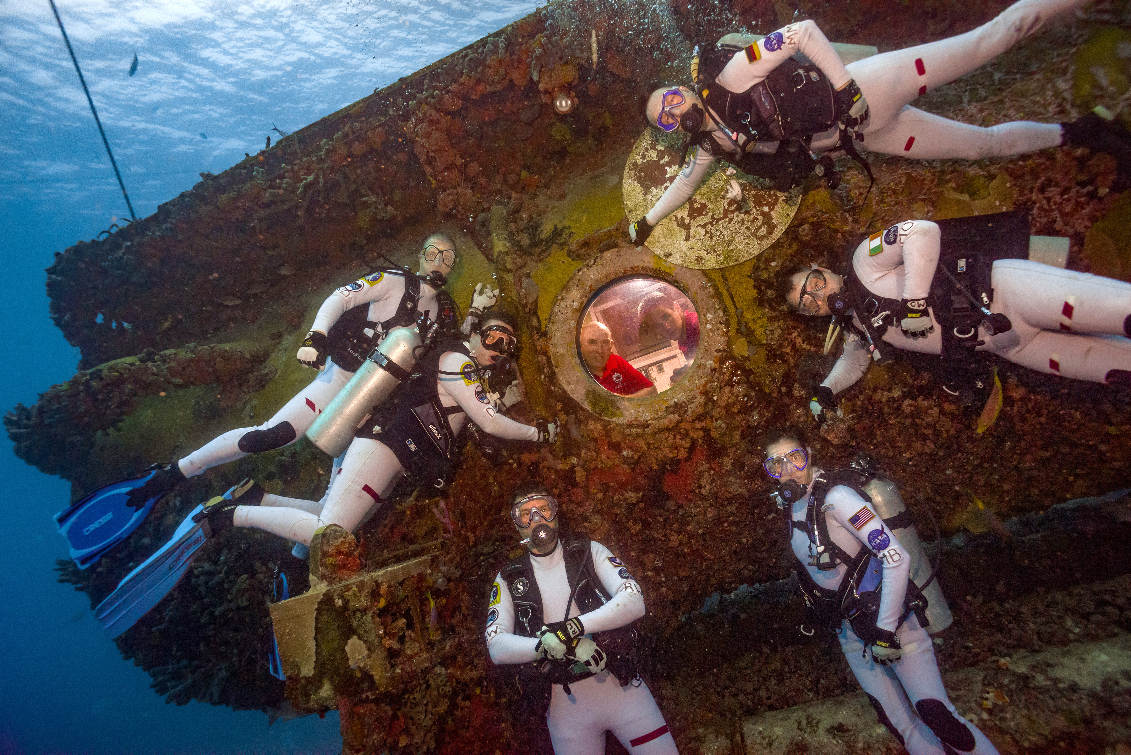 Team picture at Aquarius. Inside: Hank Stark (left) & Sean Moore (right) (Florida International University Habitat Technicians). Clockwise from top: Matthias Maurer (ESA), Marc O Griofa (Teloregen/VEGA/AirDocs), Megan McArthur (NASA), Reid Wiseman (NASA), Dawn Kernagis (Institute for Human & Machine Cognition), and Noel Du Toit (Naval Postgraduate School).